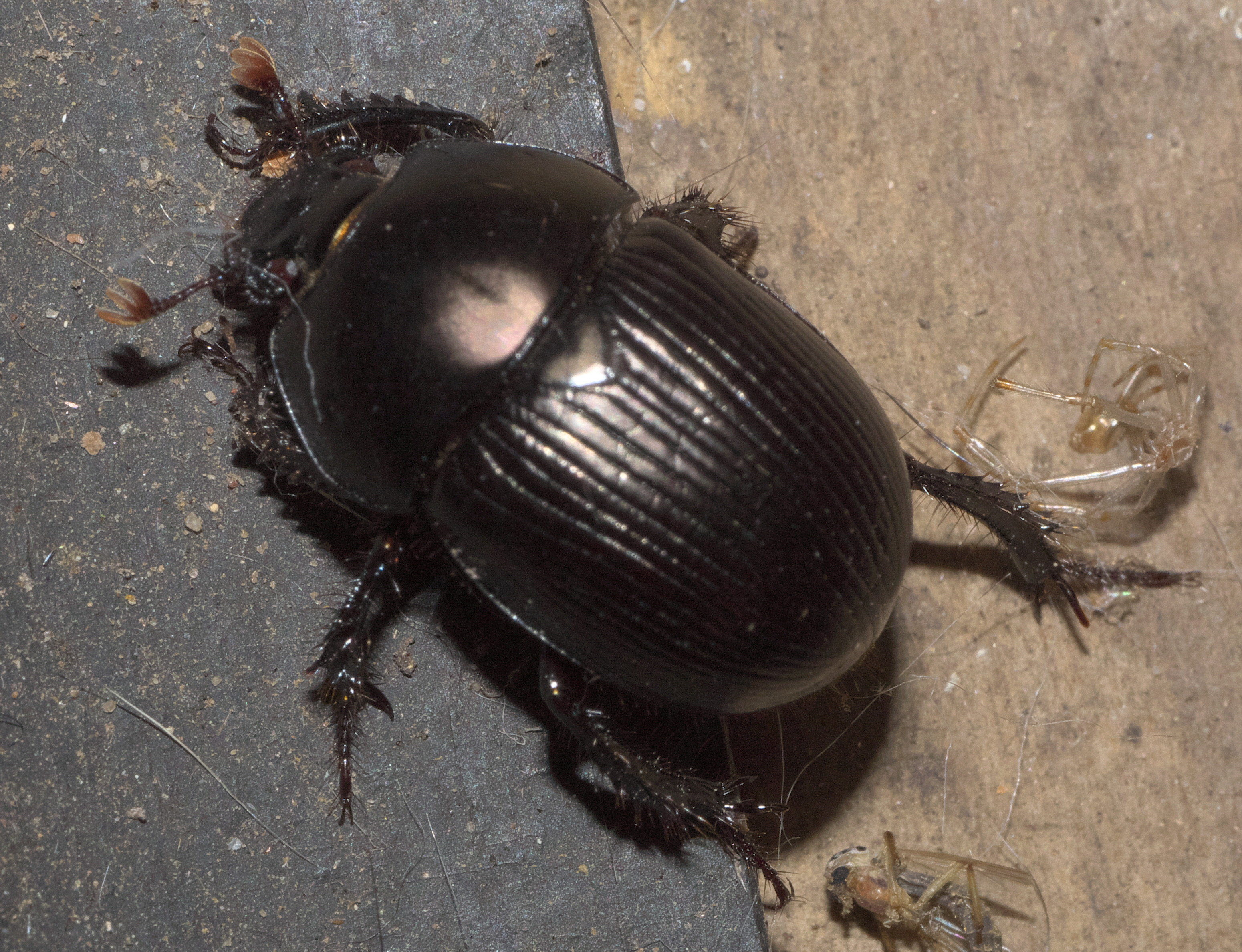 Geotrupes, Family: Earth-Boring Scarab Beetles, ID Confidence: 98